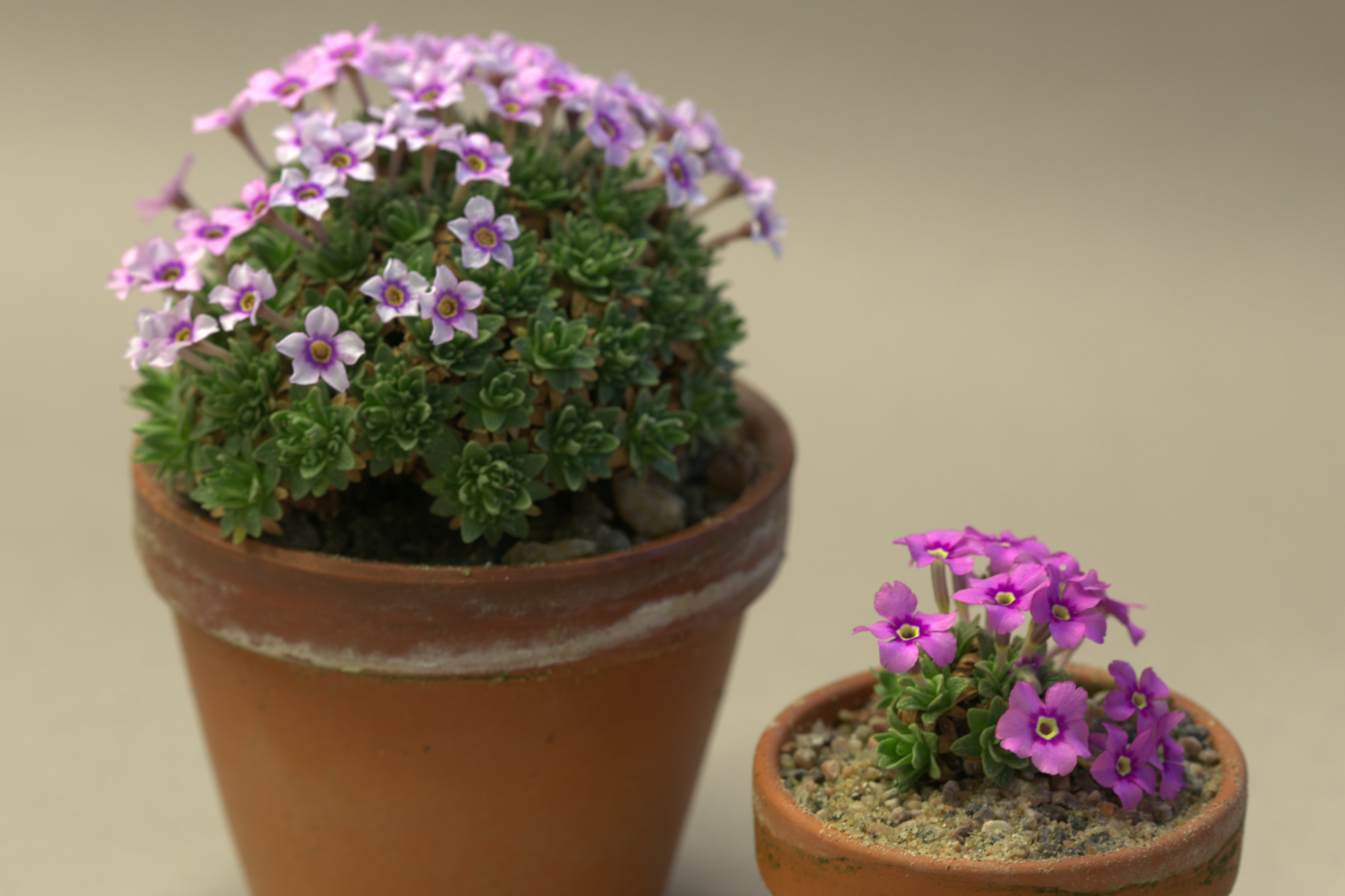 Two different specimens of Dionysia freitagii in Gotheburg Botanical Garden.